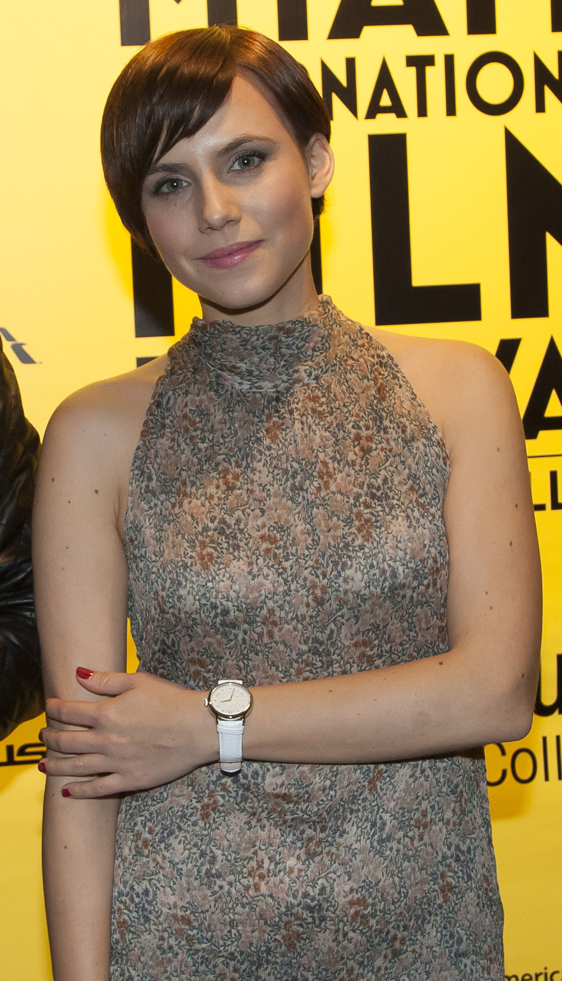 Actress Aura Garrido at the Miami Film Festival presentation of "Innocent Killers" at Tower Theater Mar 10, 2015